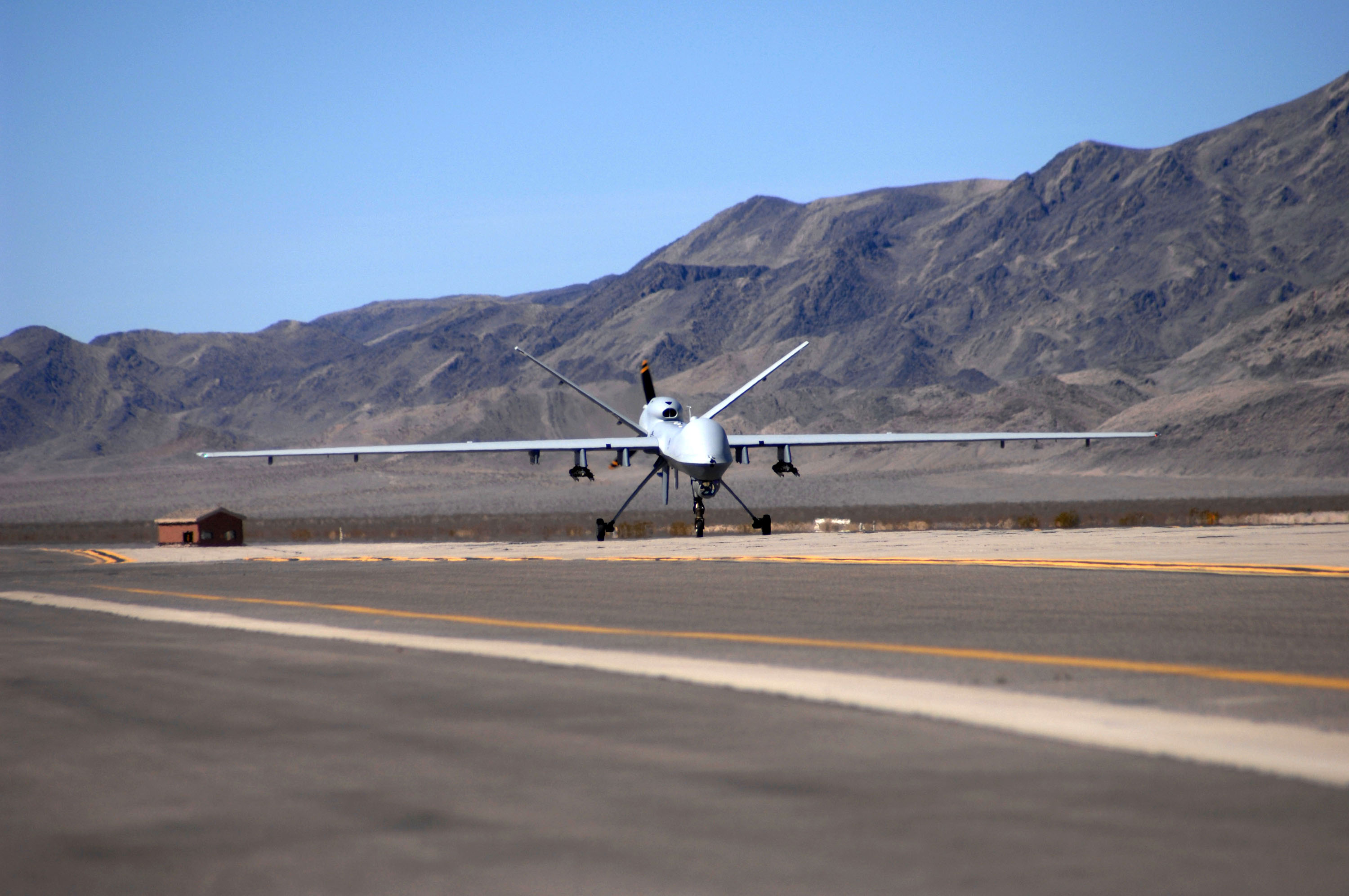 First MQ-9 Reaper makes its home on Nevada flightline: An MQ-9 Reaper Unmanned Aerial Vehicle taxis into Creech Air Force Base, Nevada, March 13. It is the first operational airframe of its kind to land here. This Reaper is the first of many to be assigned to the 42nd Attack Squadron.